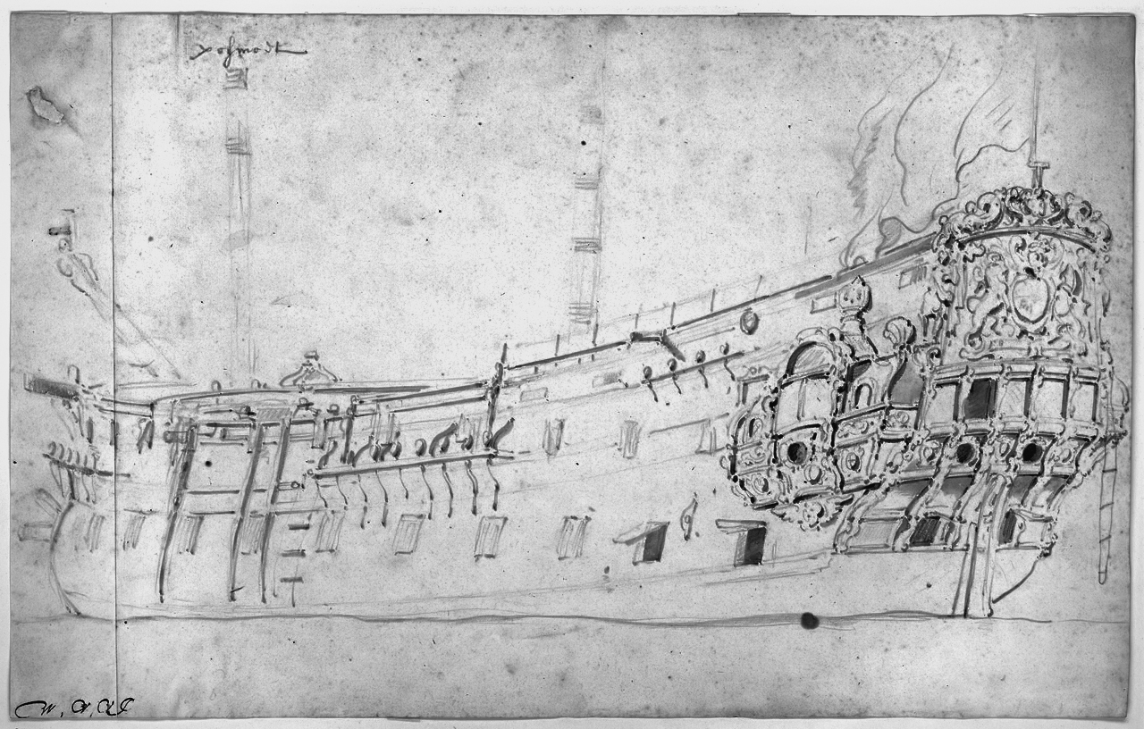 A port-quarter view portrait of the ‘Portsmouth’, 48-gun fourth-rate, built 1650, blown up 1689. Inscribed ‘posmoet’. 275 x 439 mm